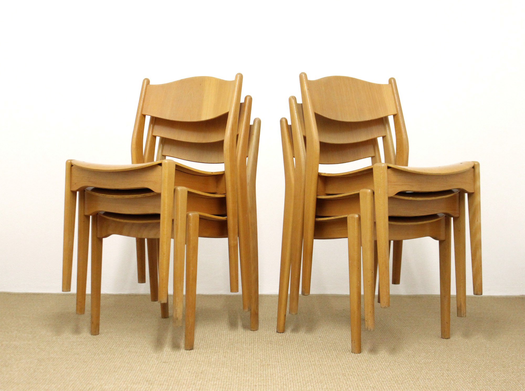 Another view of Olav Haug's Bastian chairs